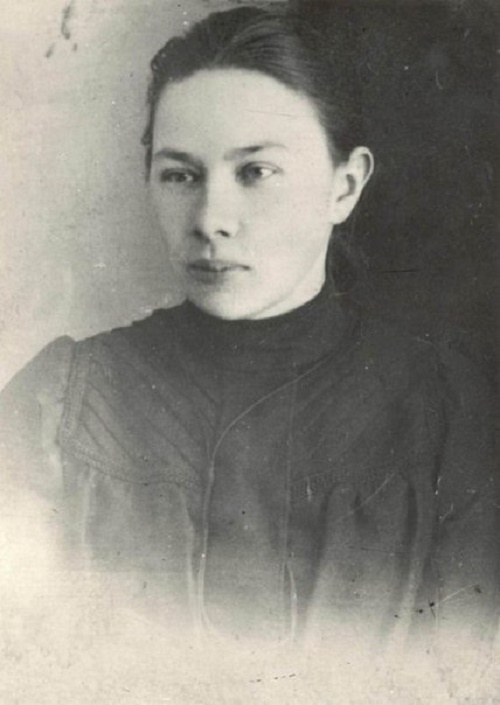 Photograph of Nadezhda Krupskaya, wife of Lenin, that was taken in 1895